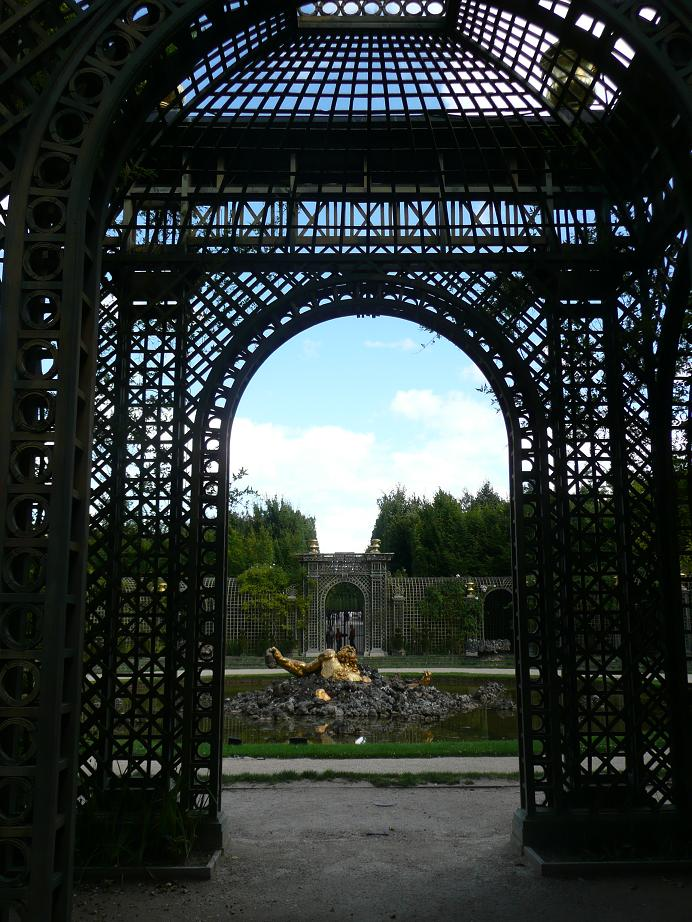 Fountain of Enceladus, Palace of Versailles